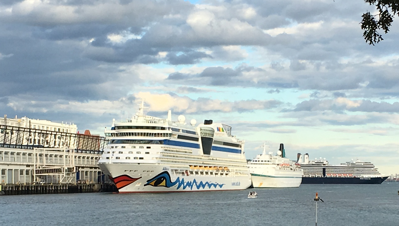 Boston Cruse Terminal with the AIDAdiva and another ship docked, while the Holland America Line Eurodam departs in the distance.